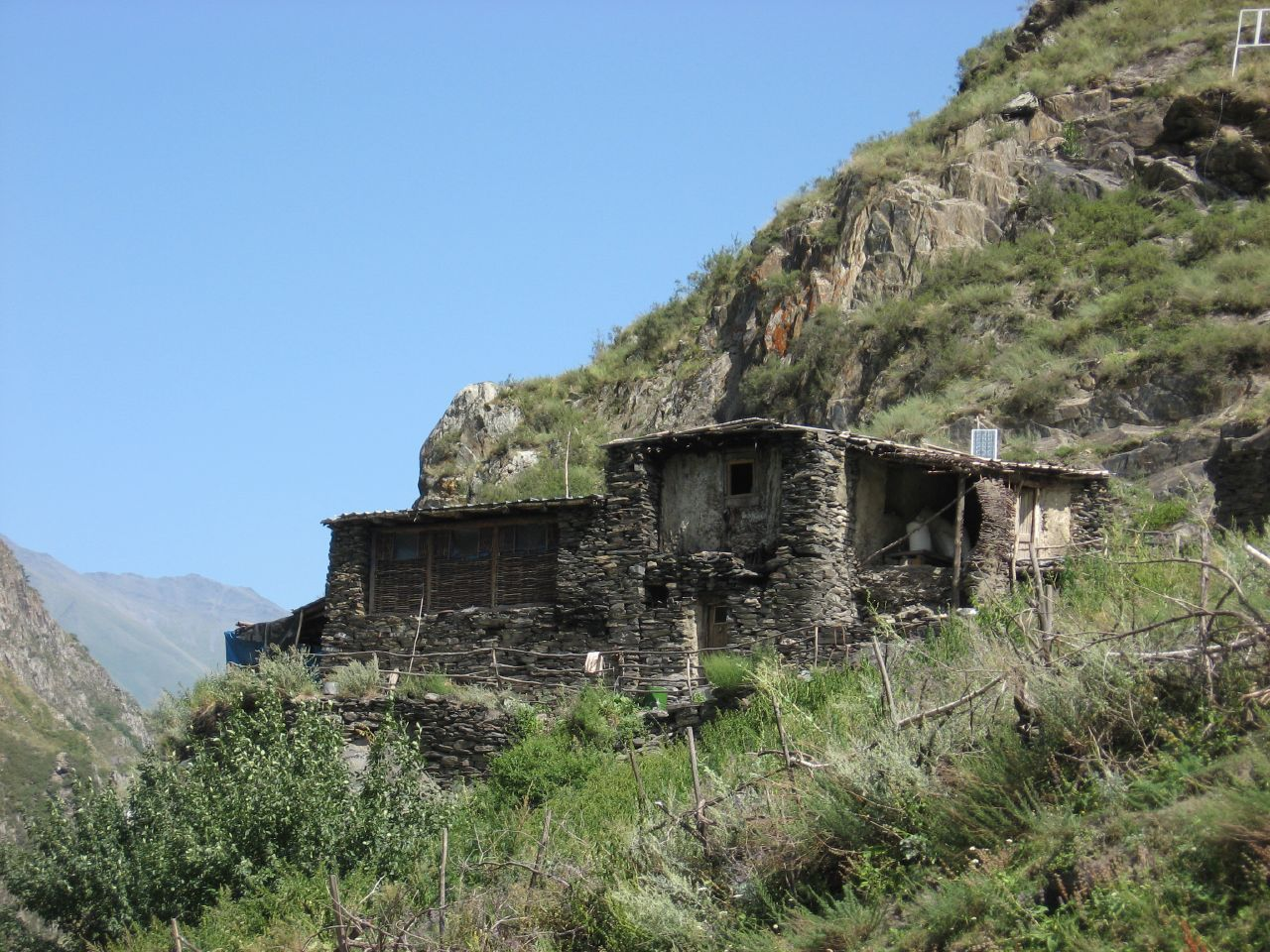 House with solar cell panel in Khevsureti, Georgia